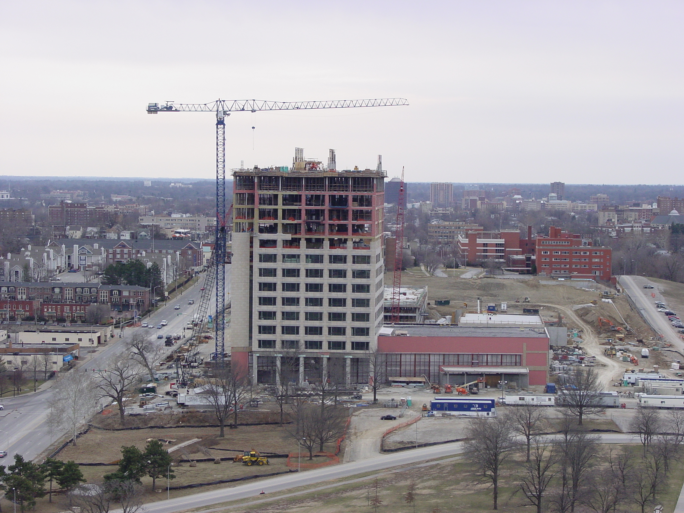 Taken from liberty memorial in 2007.